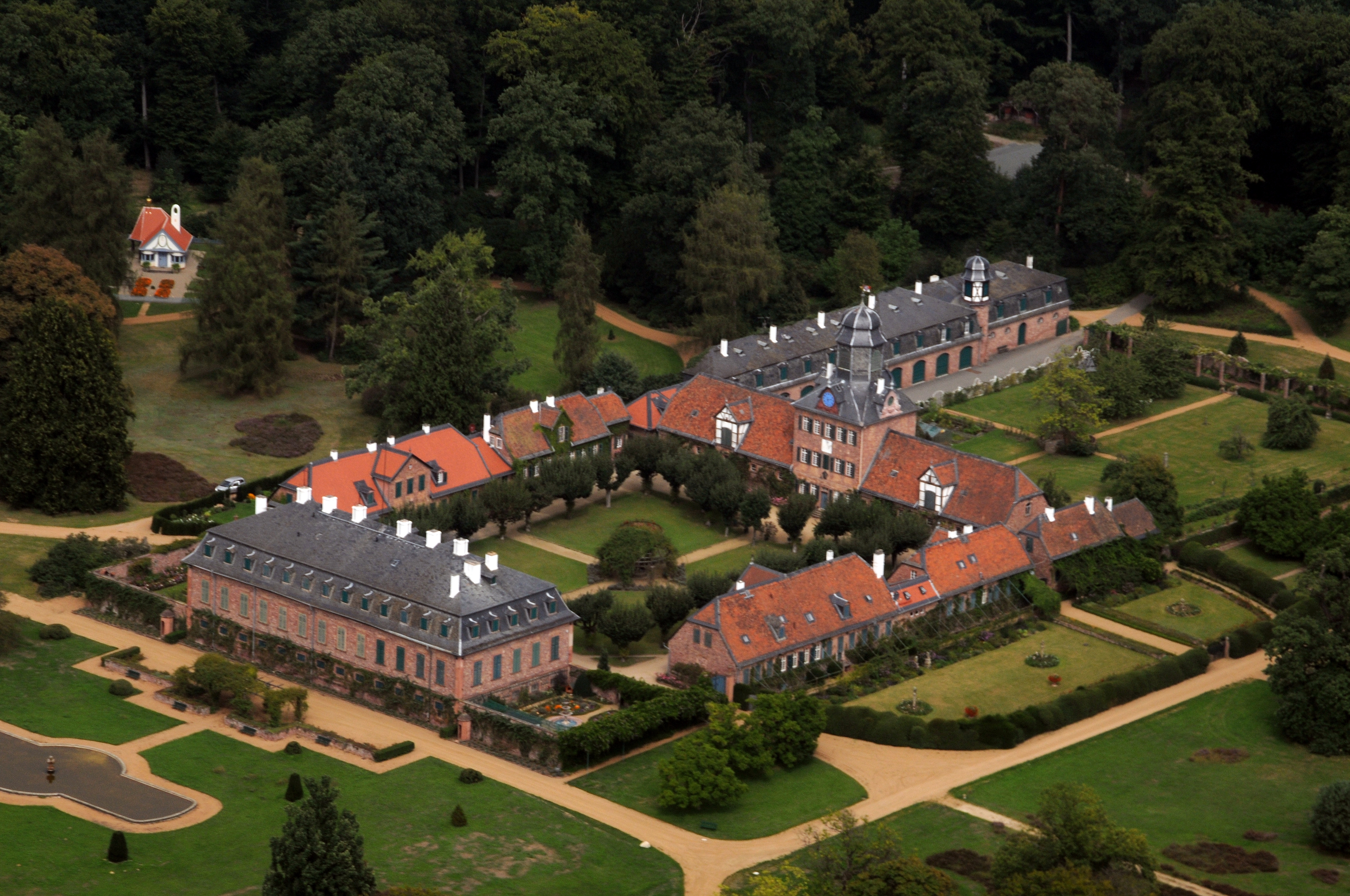 Schloss Wolfsgarten, Langen, Hesse, Germany, aerial photograph